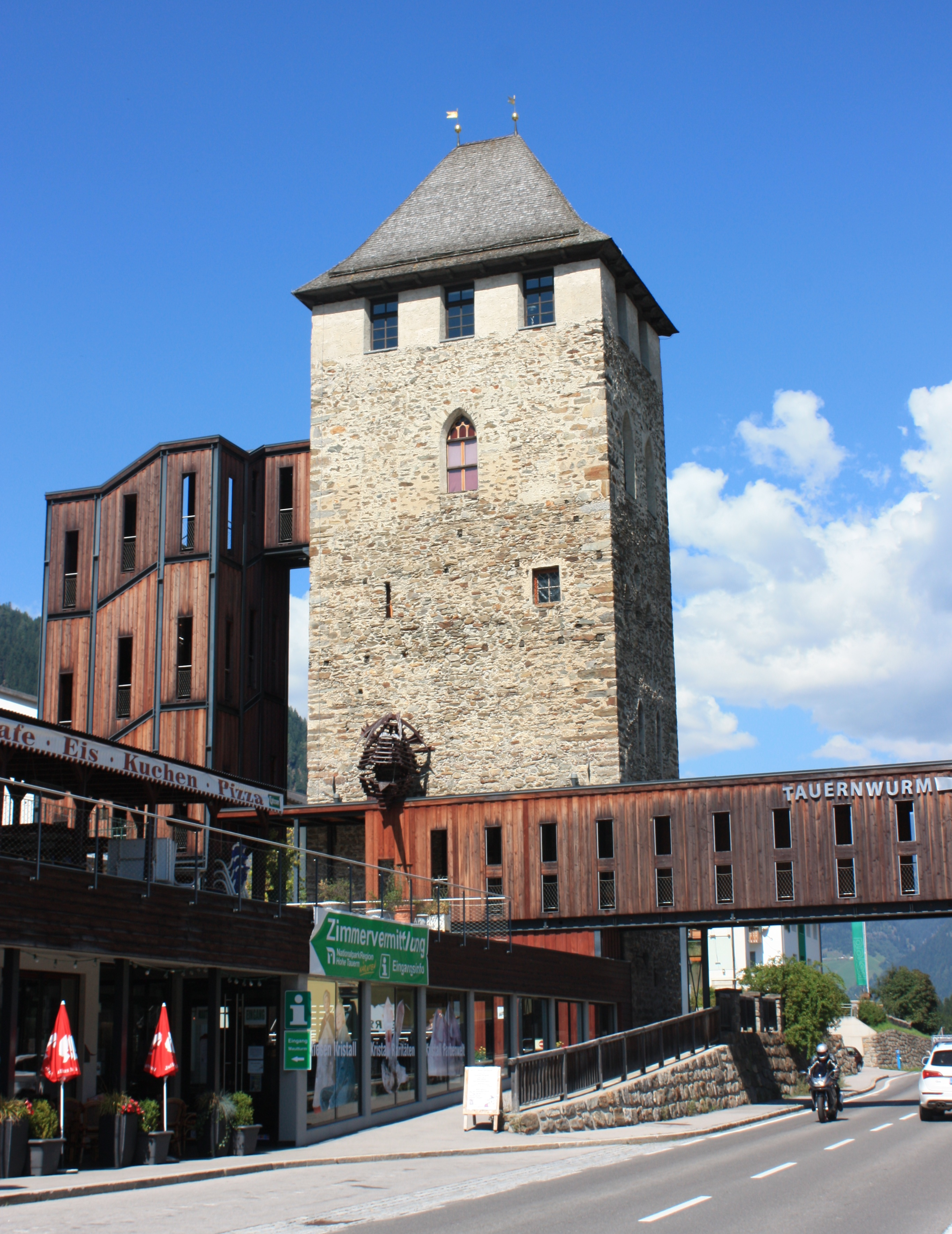 Tower Locality: Winklern Community:Winklern